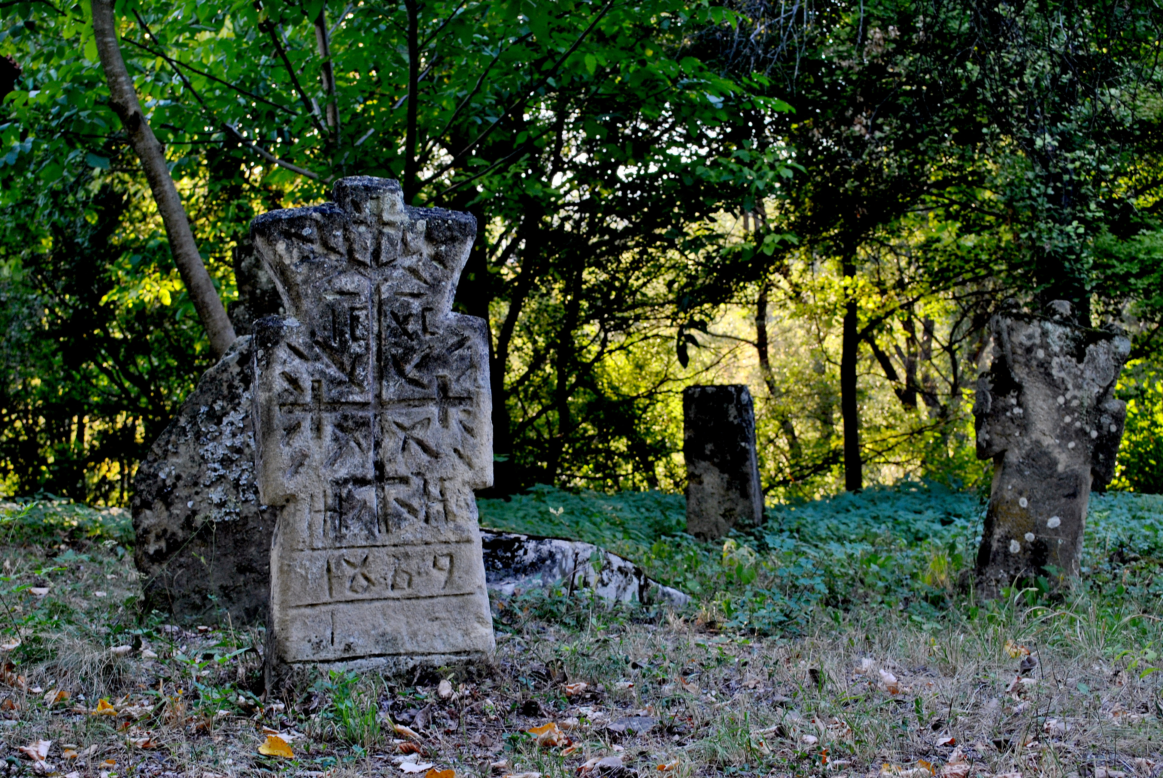 СК 665